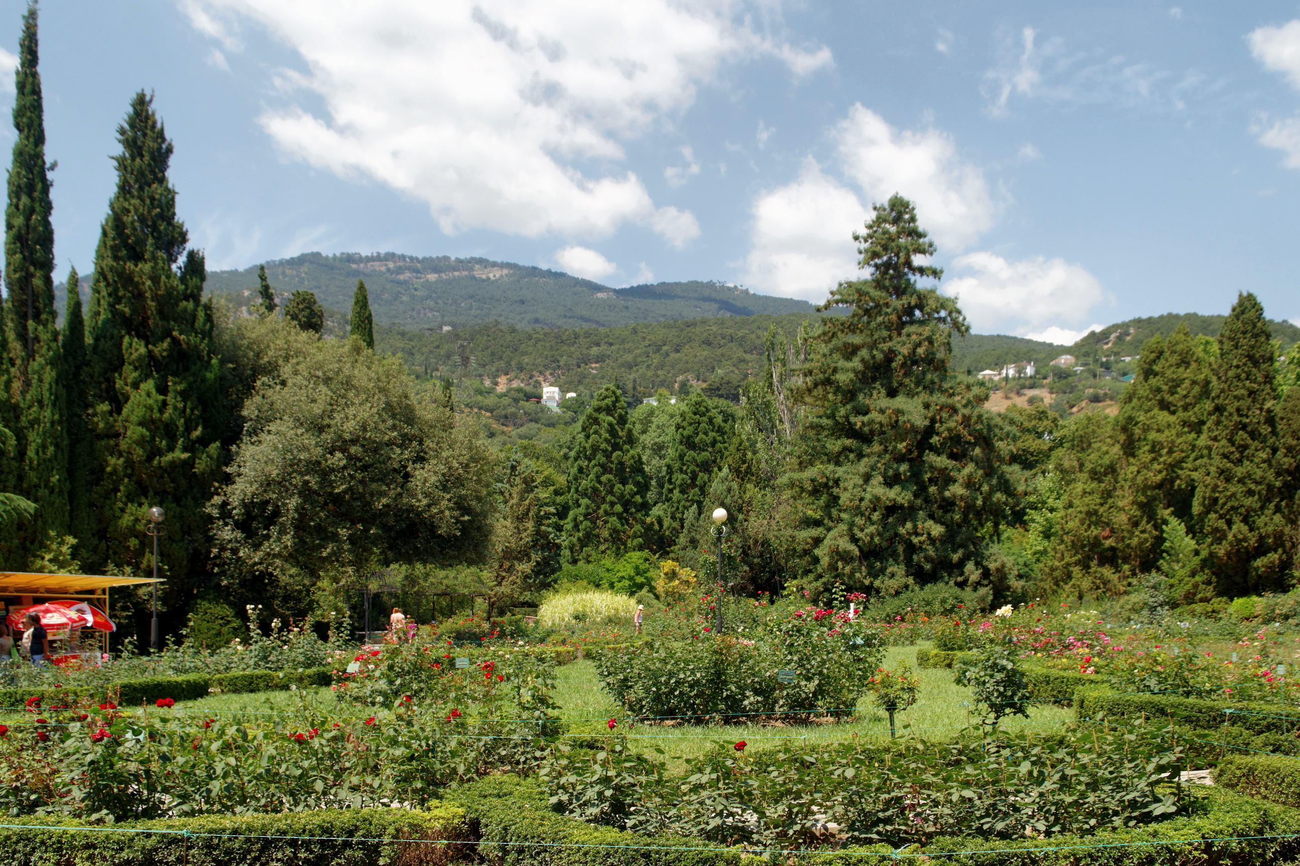 Nikitsky Botanical Garden